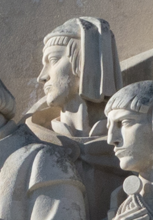 Effigy of Nicolau Coelho (c. 1460-1504), Portuguese navigator, in the Padrão dos Descobrimentos (Monument to the Discoveries), in Lisbon, Portugal.